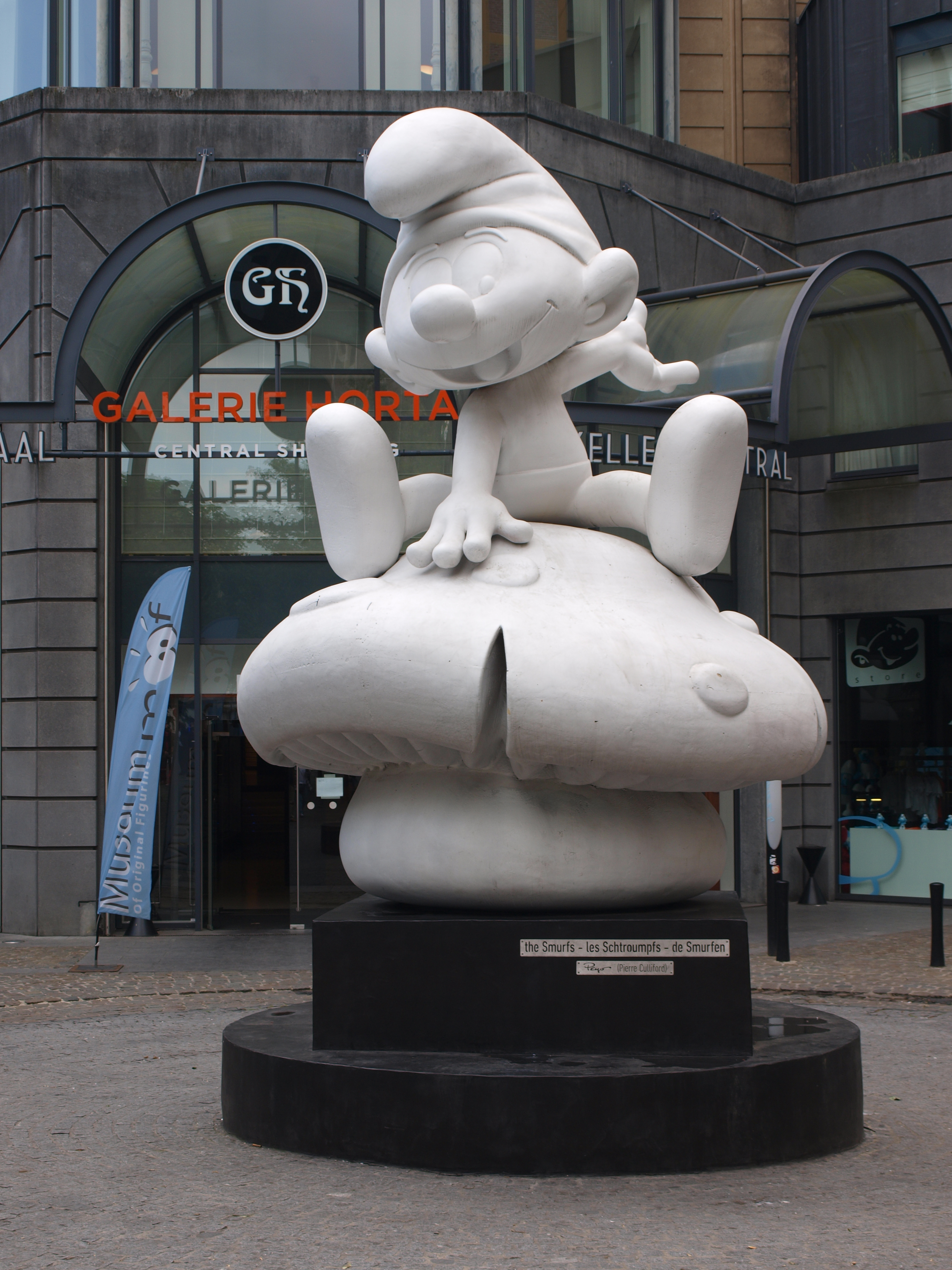 The Smurfs, statue in Brussels (in front of Galerie Horta)